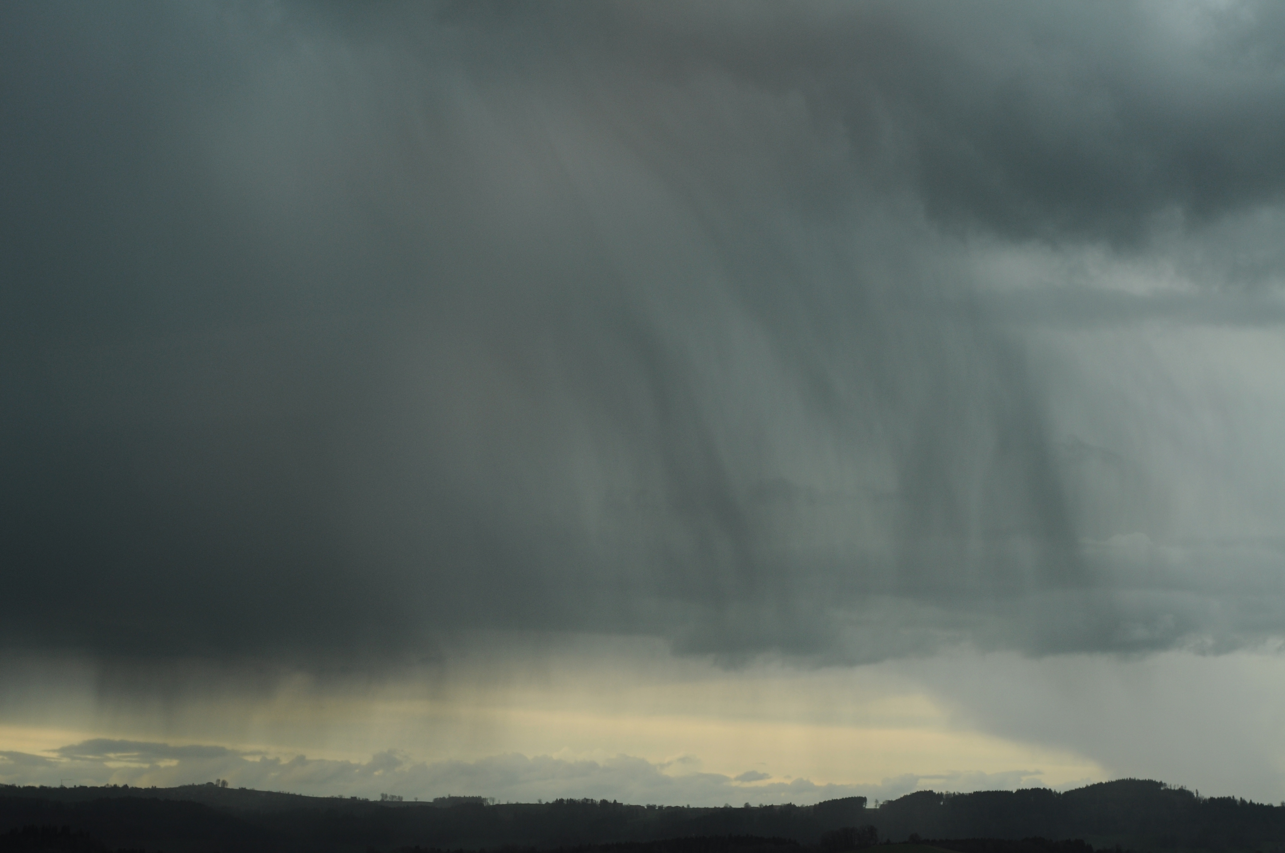 Nimbostratus virga during cold front